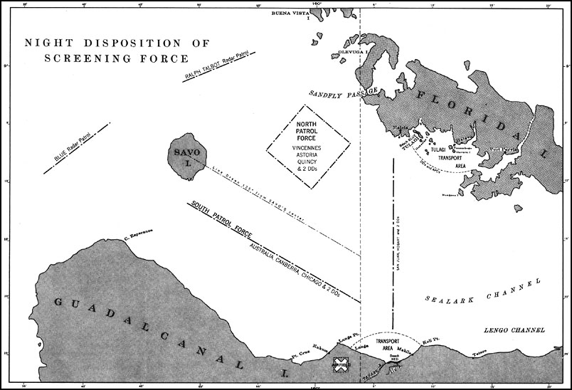 U.S. Navy map from 1943 showing disposition of Allied ships before Battle of Savo Island, 8-9 August 1942.